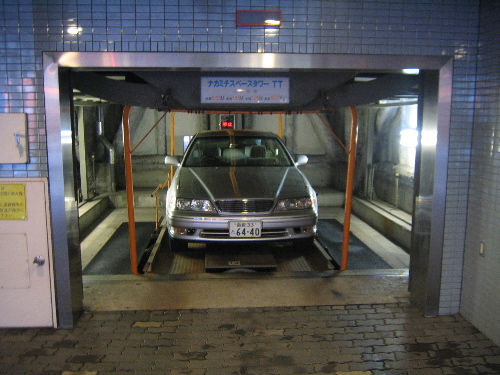 Japanese car park. The platform moves to lift the car up.